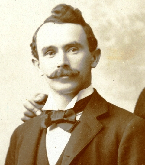 Keene Fitzpatrick cropped from 1894 University of Michigan football team